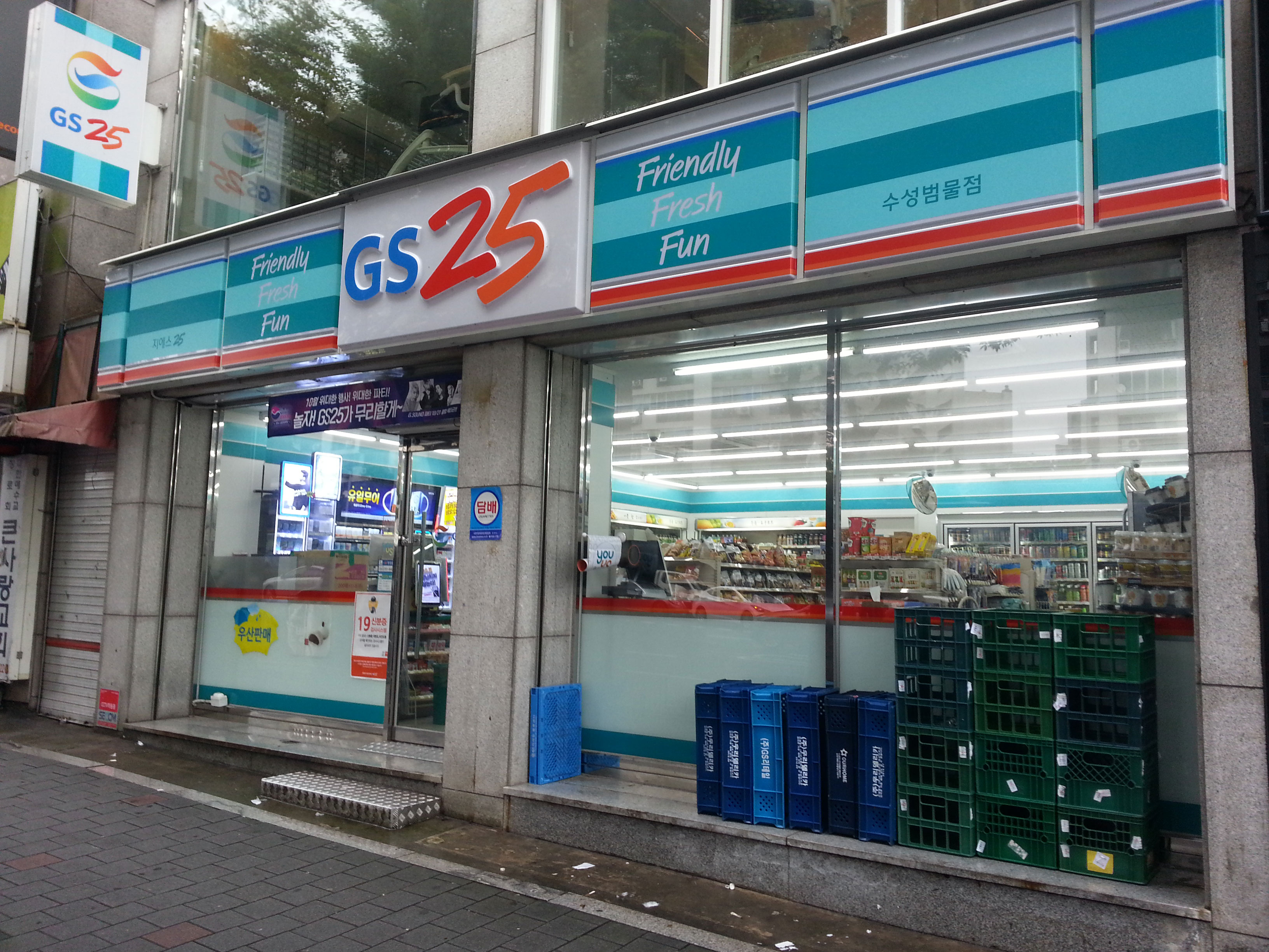 The GS25 Suseong-Beommul branch